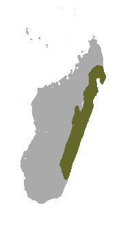 Lowland Streaked Tenrec (Hemicentetes semispinosus) range